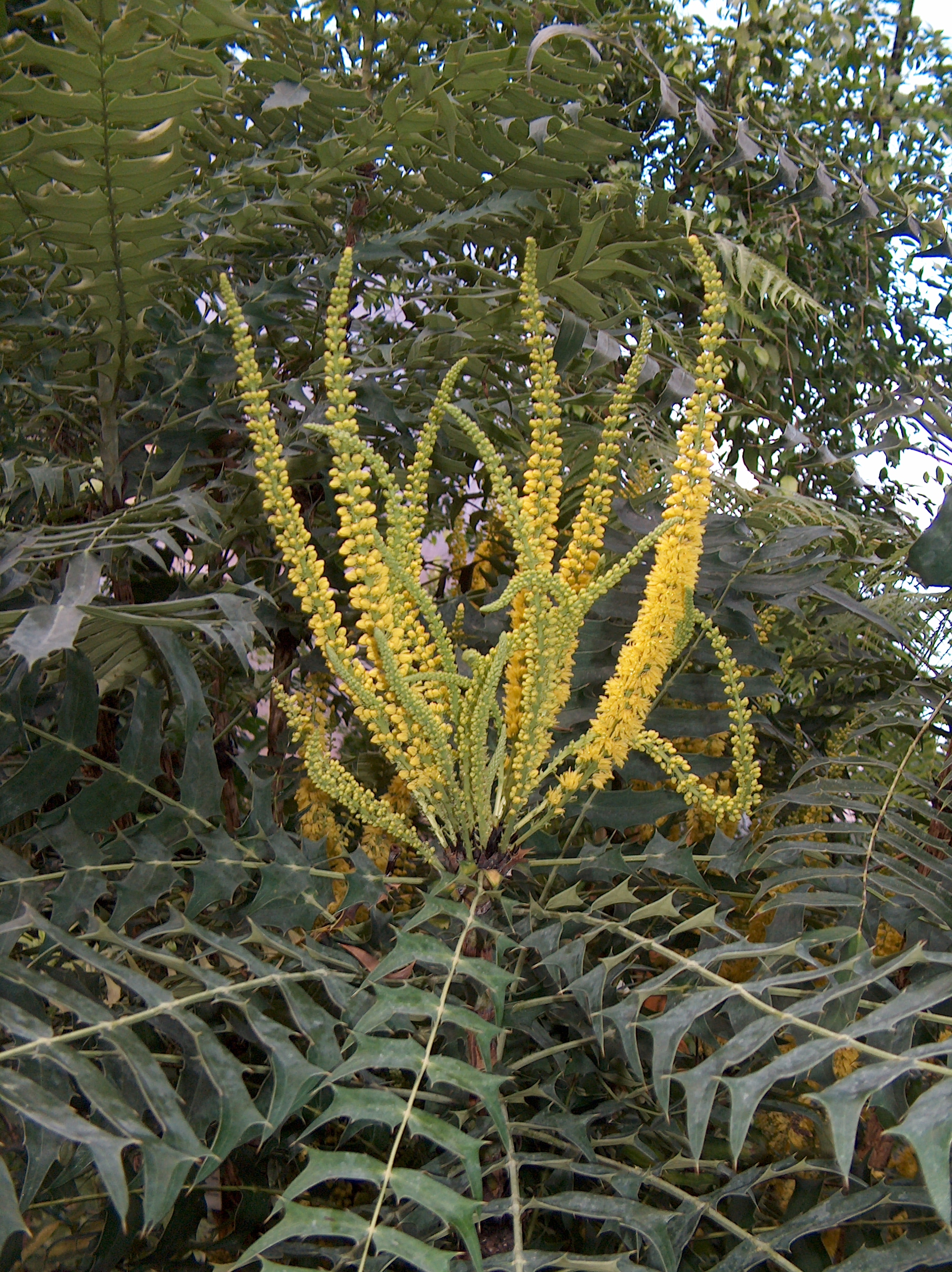 Flowers of Mahonia lomariifolia Tak.